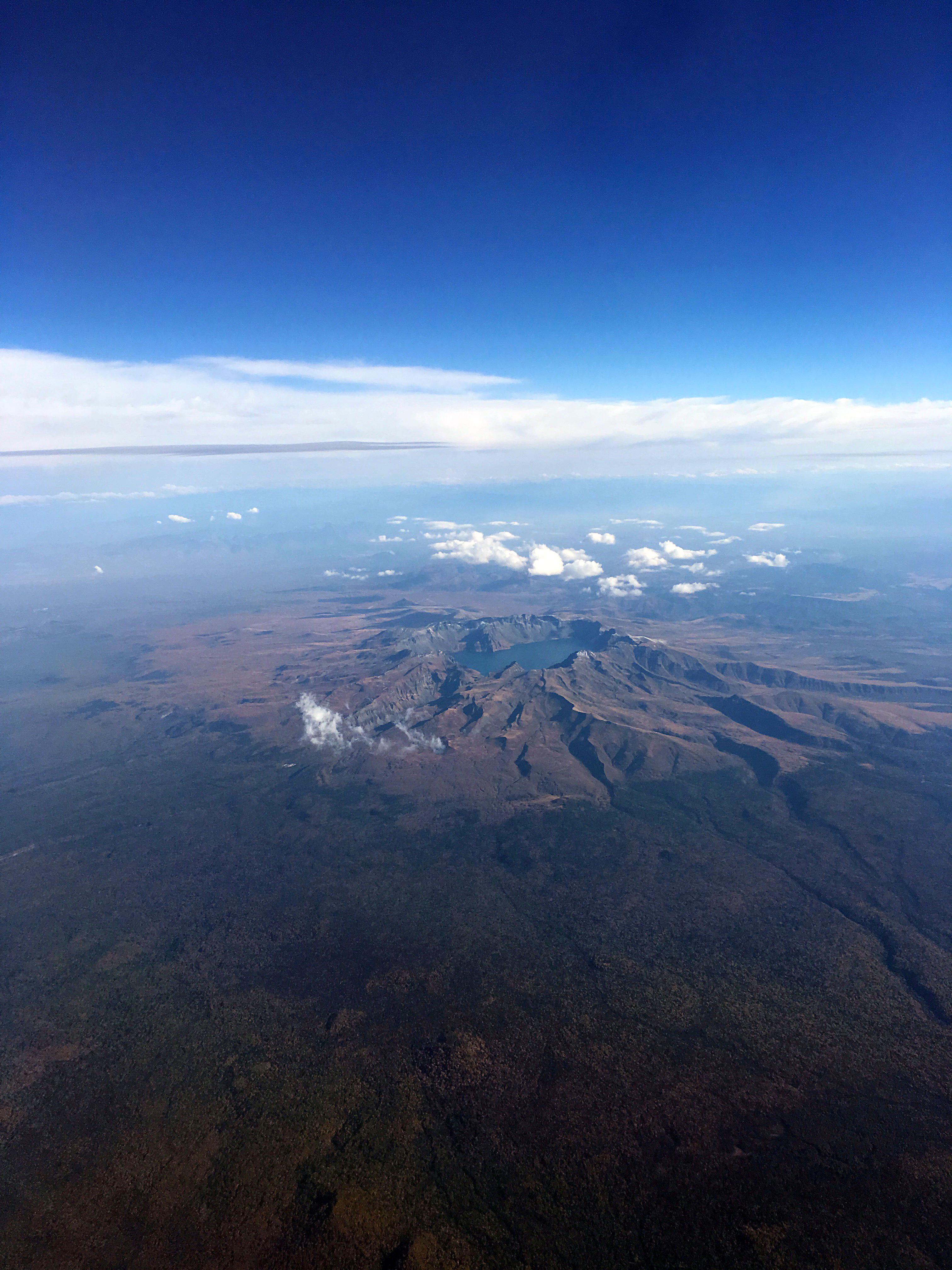 Heaven Lake - Changbai Mountain (Aerial photograph)